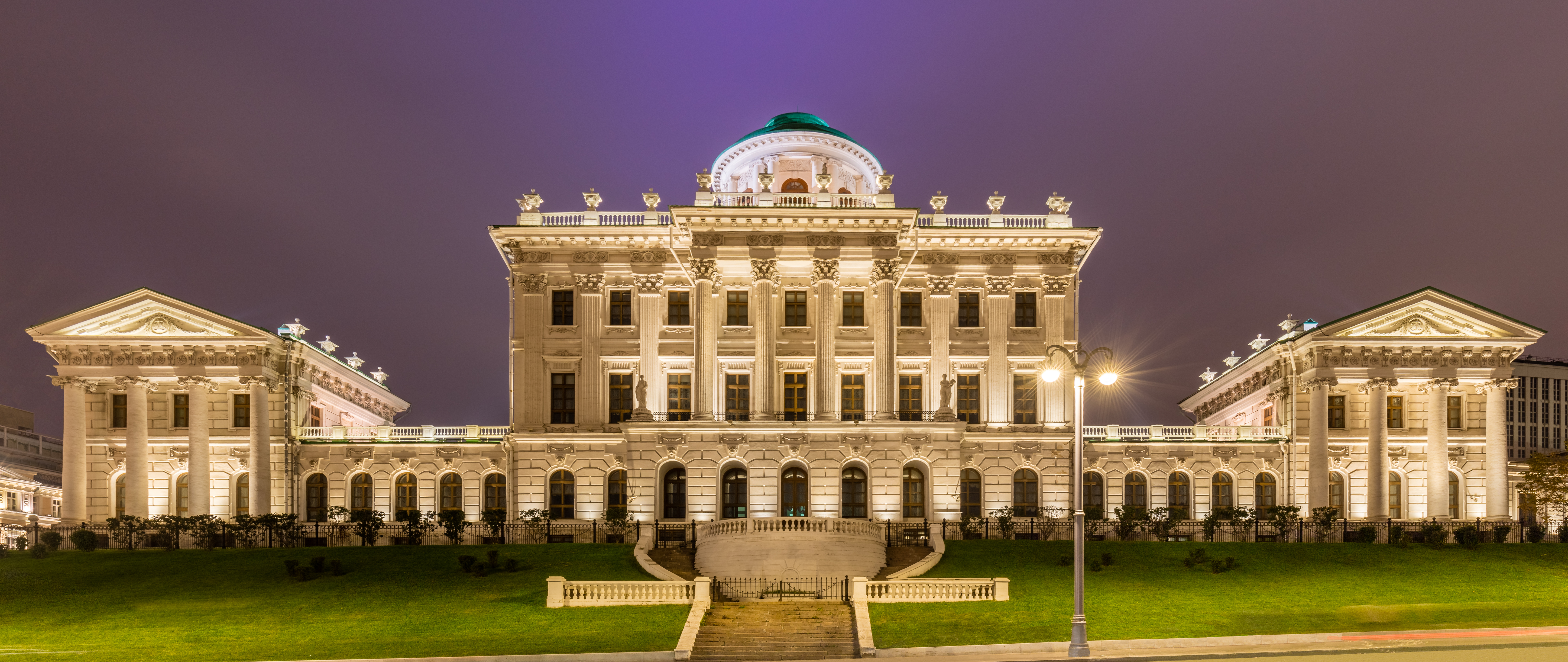 Night view of the Pashkov house, Moscow, Russia. The palace, of neoclassical style, was erected in 1784-1786 by Pyotr Pashkov, a Muscovite nobleman, and presumably designed by Vasili Bazhenov. Today it is owned by the Russian State Library.